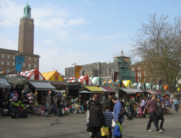 Norwich City Market When I lived in Norwich the market did not look quite as neat as it does these days. Looking very colourful, to go with the characters inside!